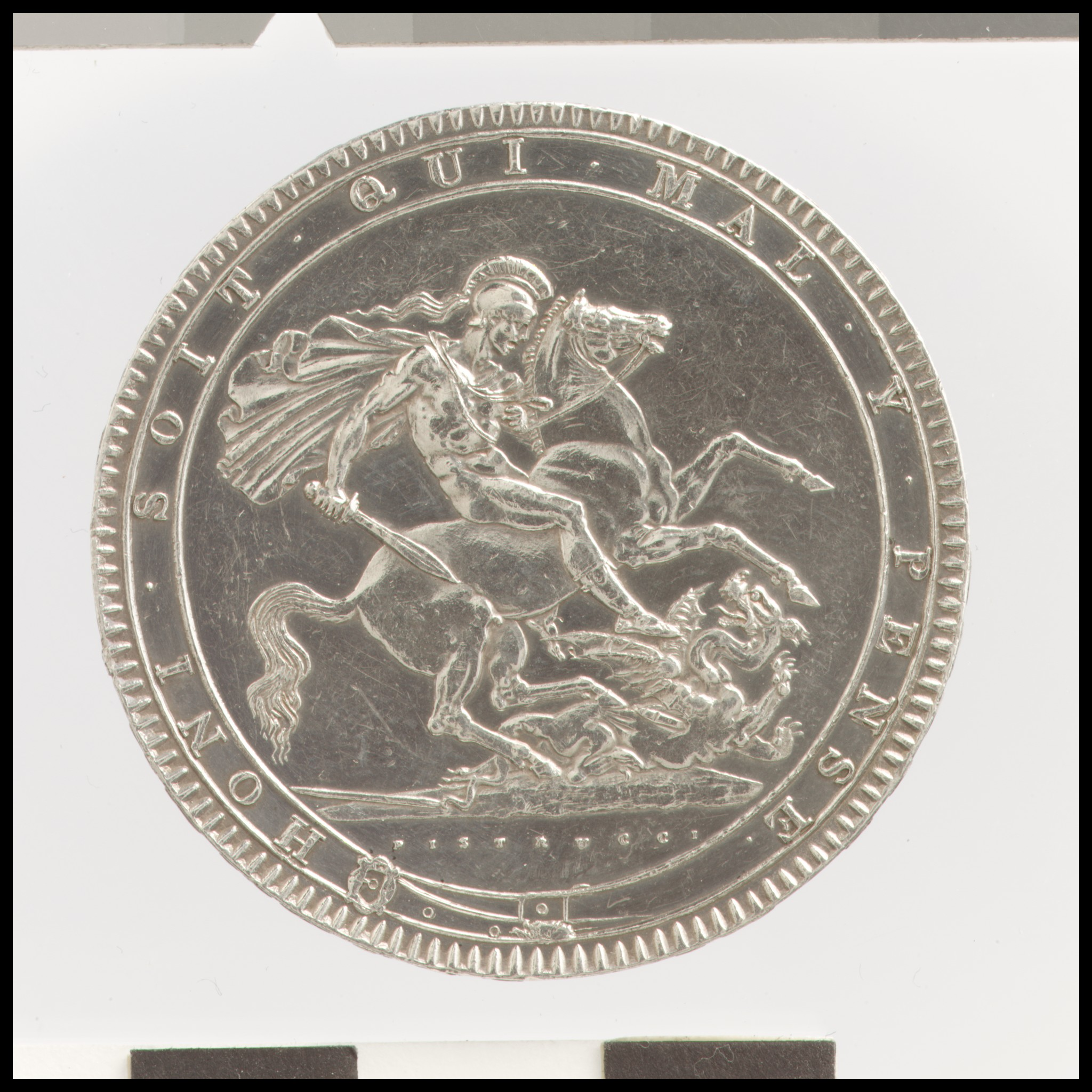 British; Crown coin; Coins